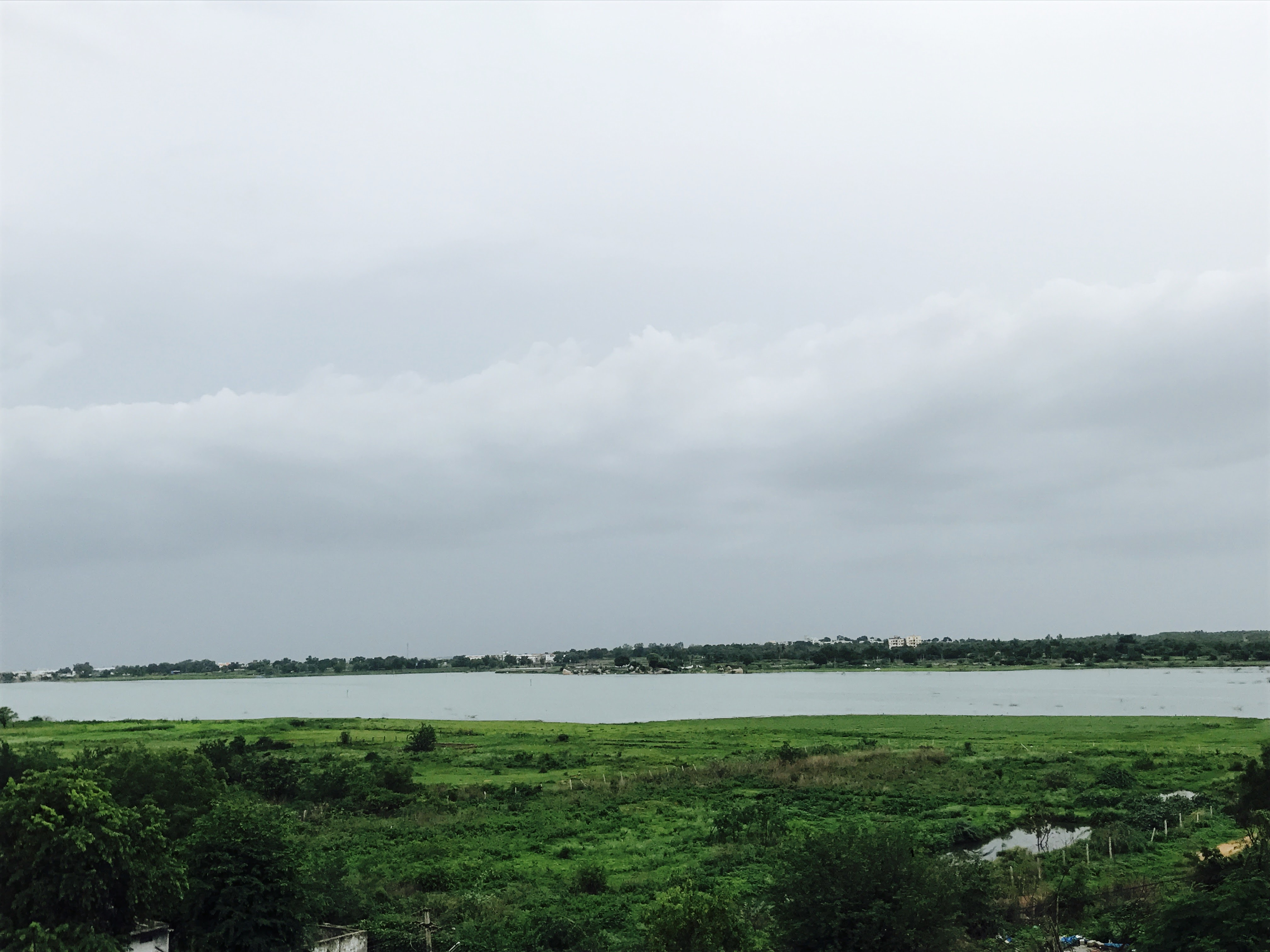 Beauty of Ameenpur lake in rainy season goes very high.